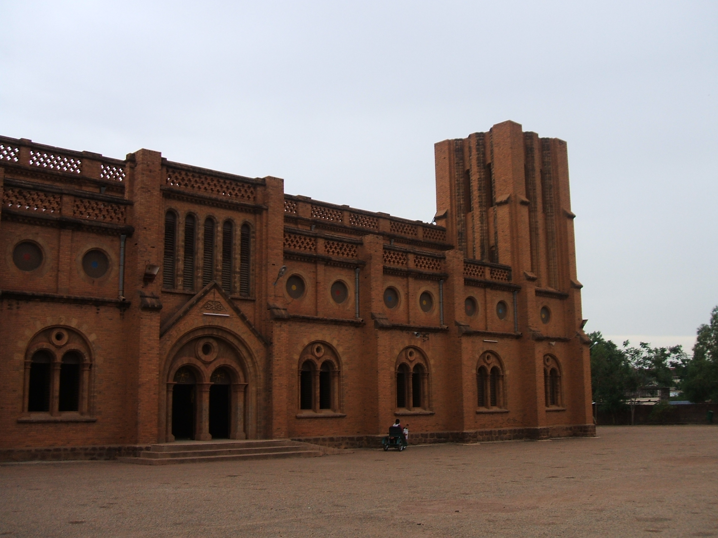 Cathedral of Ouagadougou, Burkina Faso, built in the 1930s.